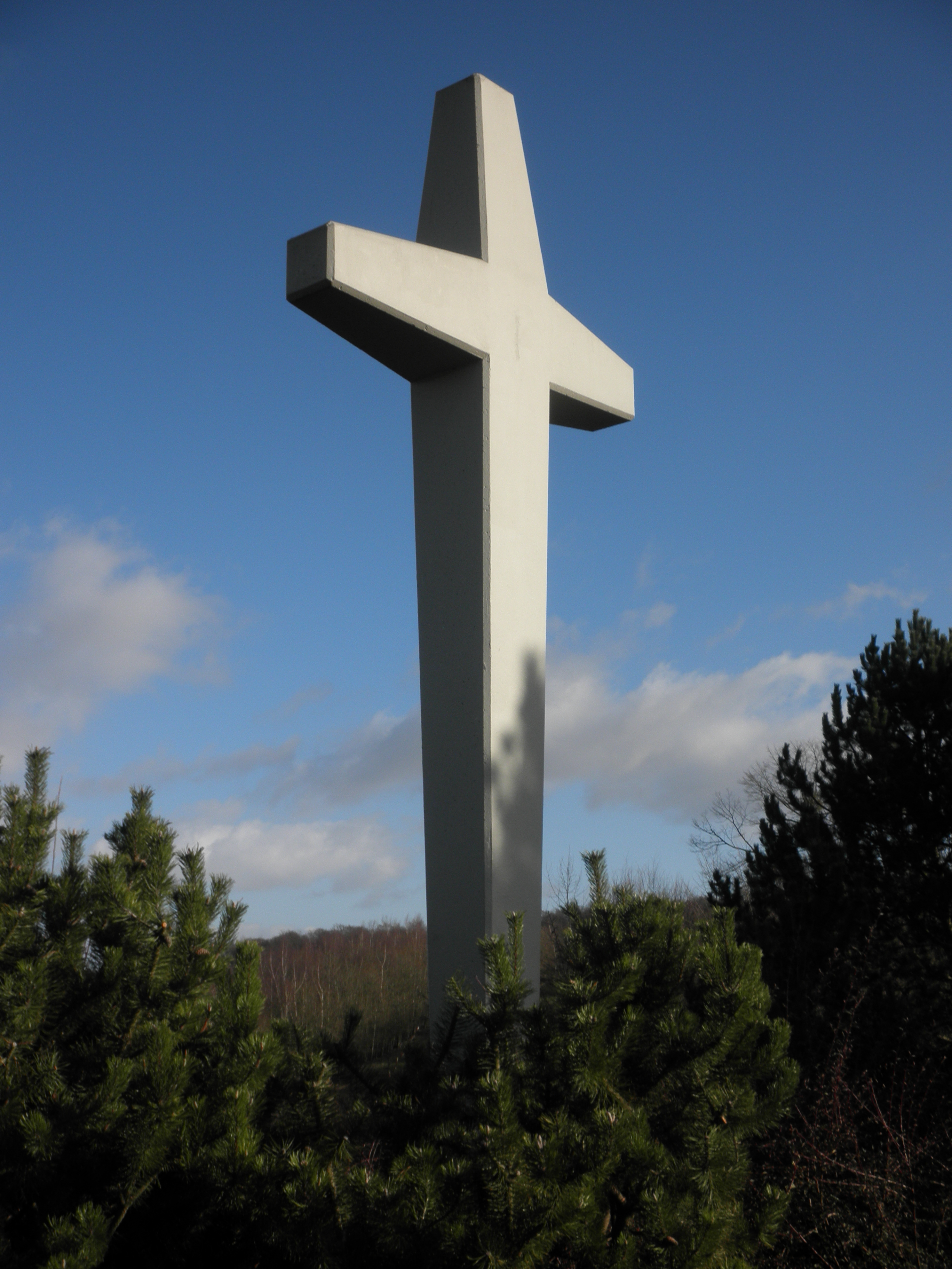 Eichsfelder Kreuz near Wanfried in Hessia